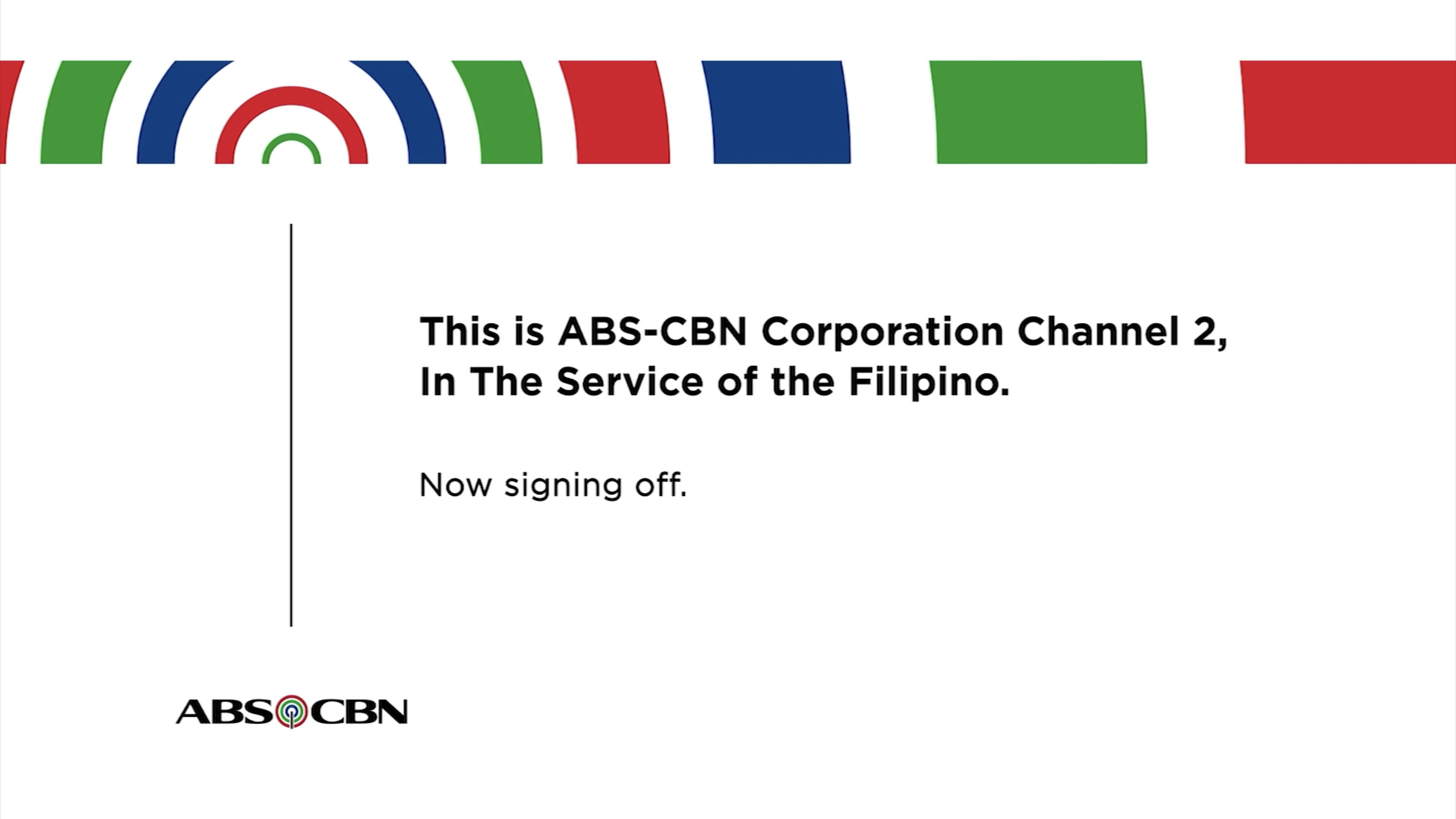 Screen capture of the sign-off notice of ABS-CBN on May 5, 2020, when it was ordered to cease all broadcasting owing to the ABS-CBN franchise renewal controversy. Tagalog: Kuha ng babala ng paghinto sa brodkast ng ABS-CBN noong 5 Mayo 2020, noong inatasan itong ihinto ang lahat ng pagbrodkast nito dulot ng kontrobersiya sa pagpapanibago ng prangkisa ng ABS-CBN.